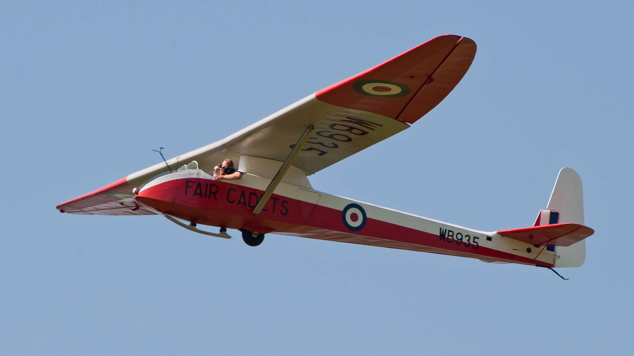 Slingsby T.21B (reg. WB935 (BGA4110), built in 1948).